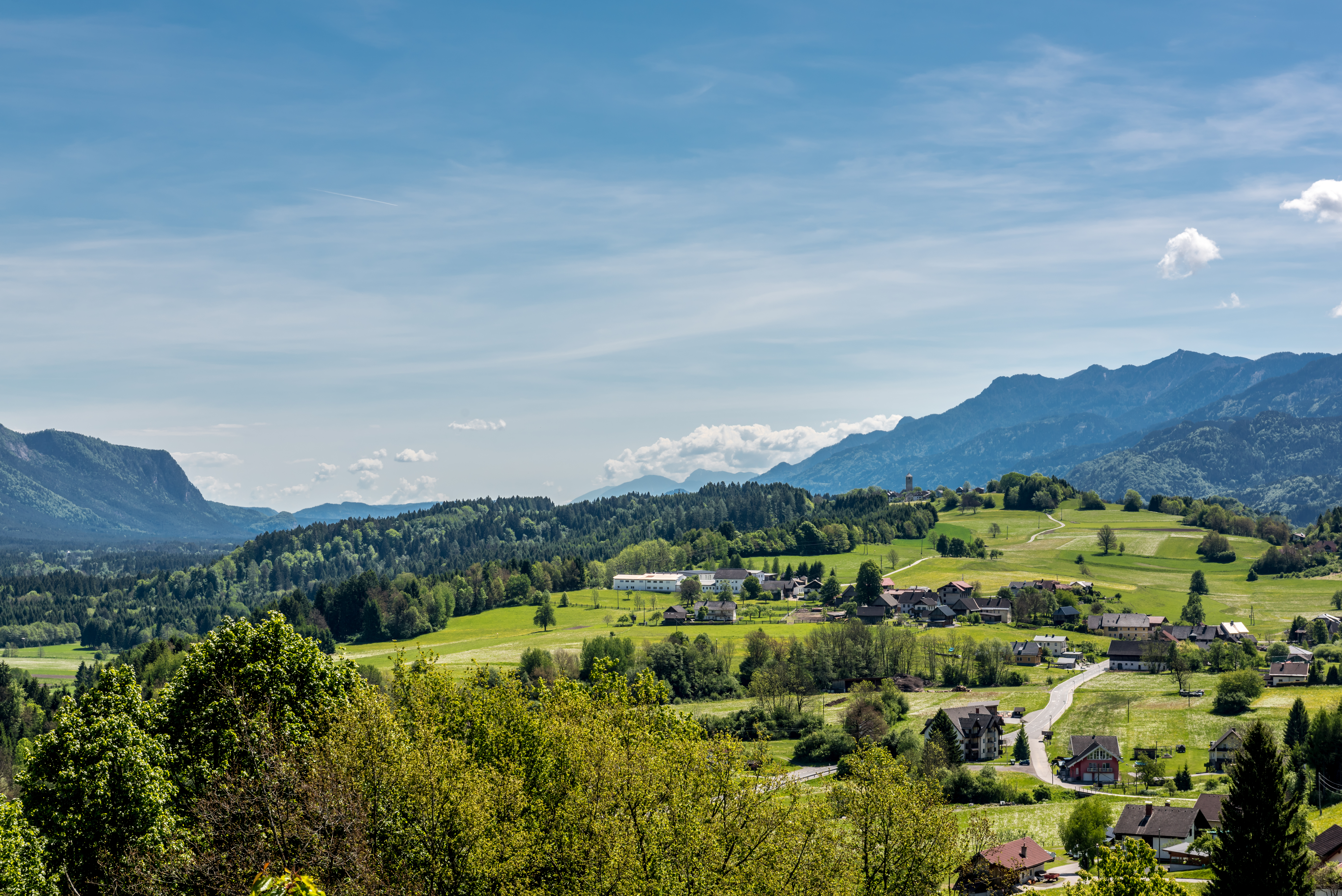 View of Hohenthurn with the subsidiary church Saint Cyriacus, municipality Hohenthurn, district Villach Land, Carinthia, Austria, EU